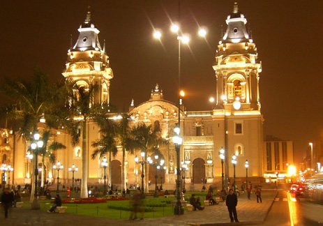 Lima Basilica and Cathedral